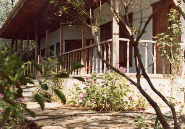 Traditional Turkish house conceived and built by Nail Çakırhan, recipient of 1983 Aga Khan Award for Architecture, for his own residence in Akyaka, Muğla, Turkey